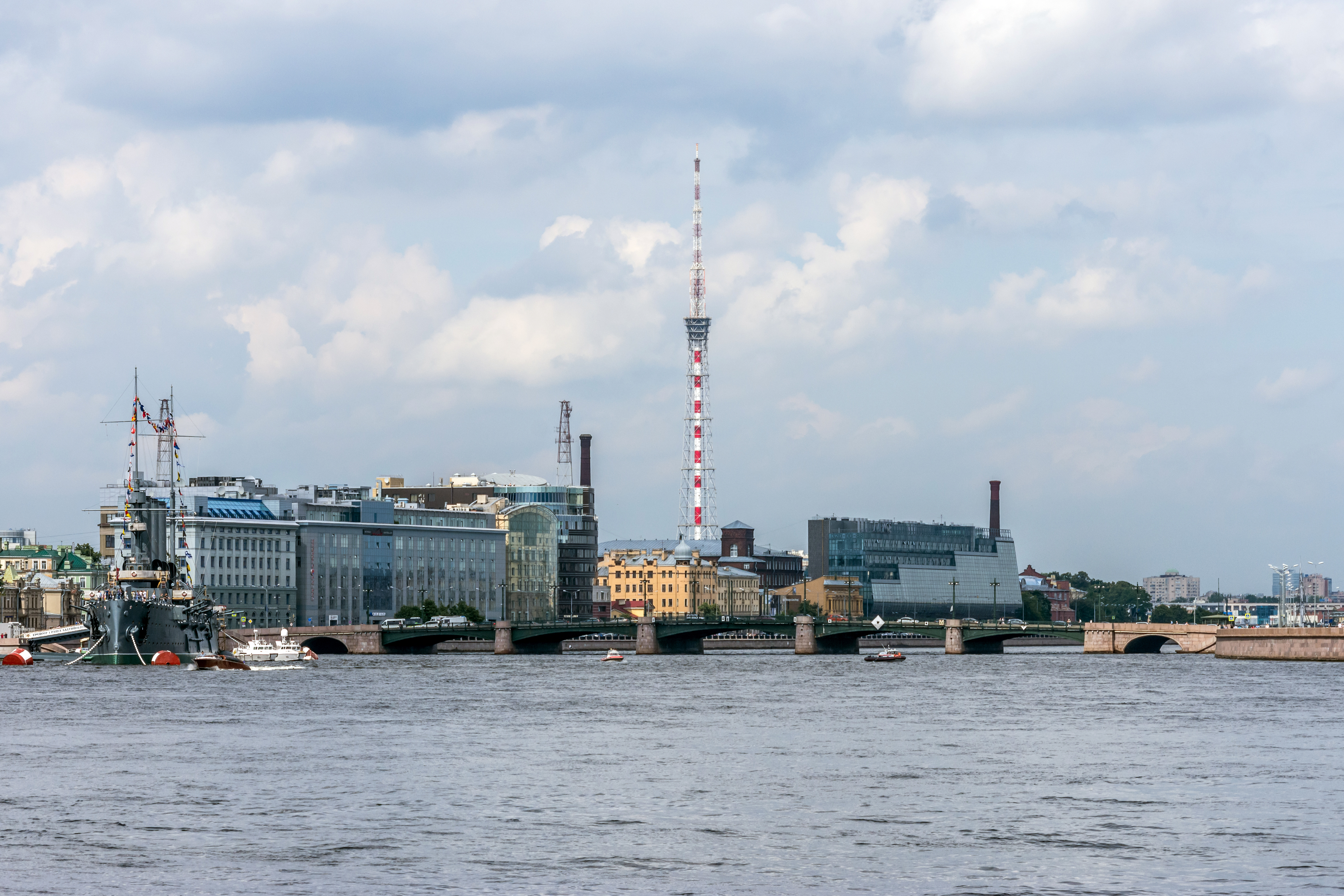 Sampsonievsky Bridge in Saint Petersburg